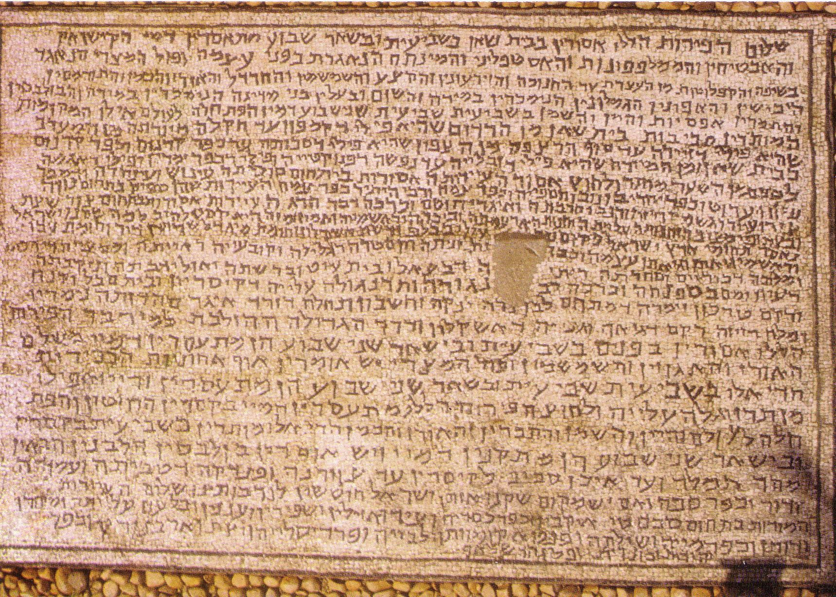 Rehov Mosaic replica, in Kibbutz Ein HaNatziv